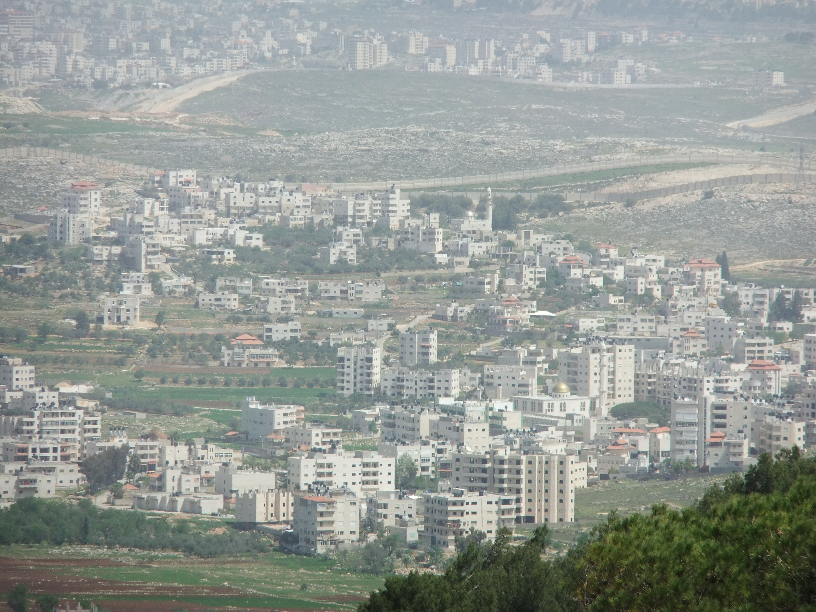 Bir Nabala from Tomb of Samuel